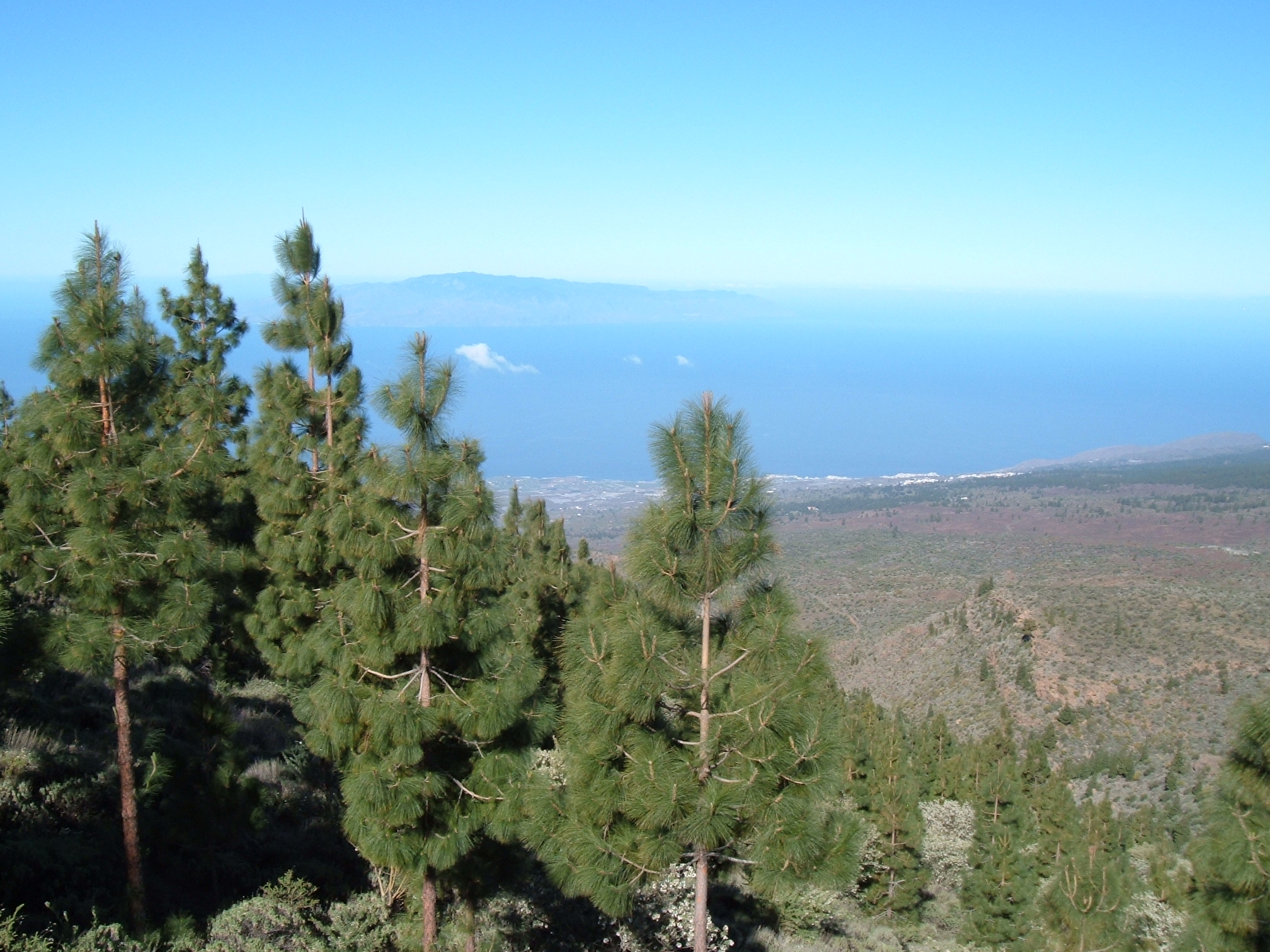 Tipical trees species